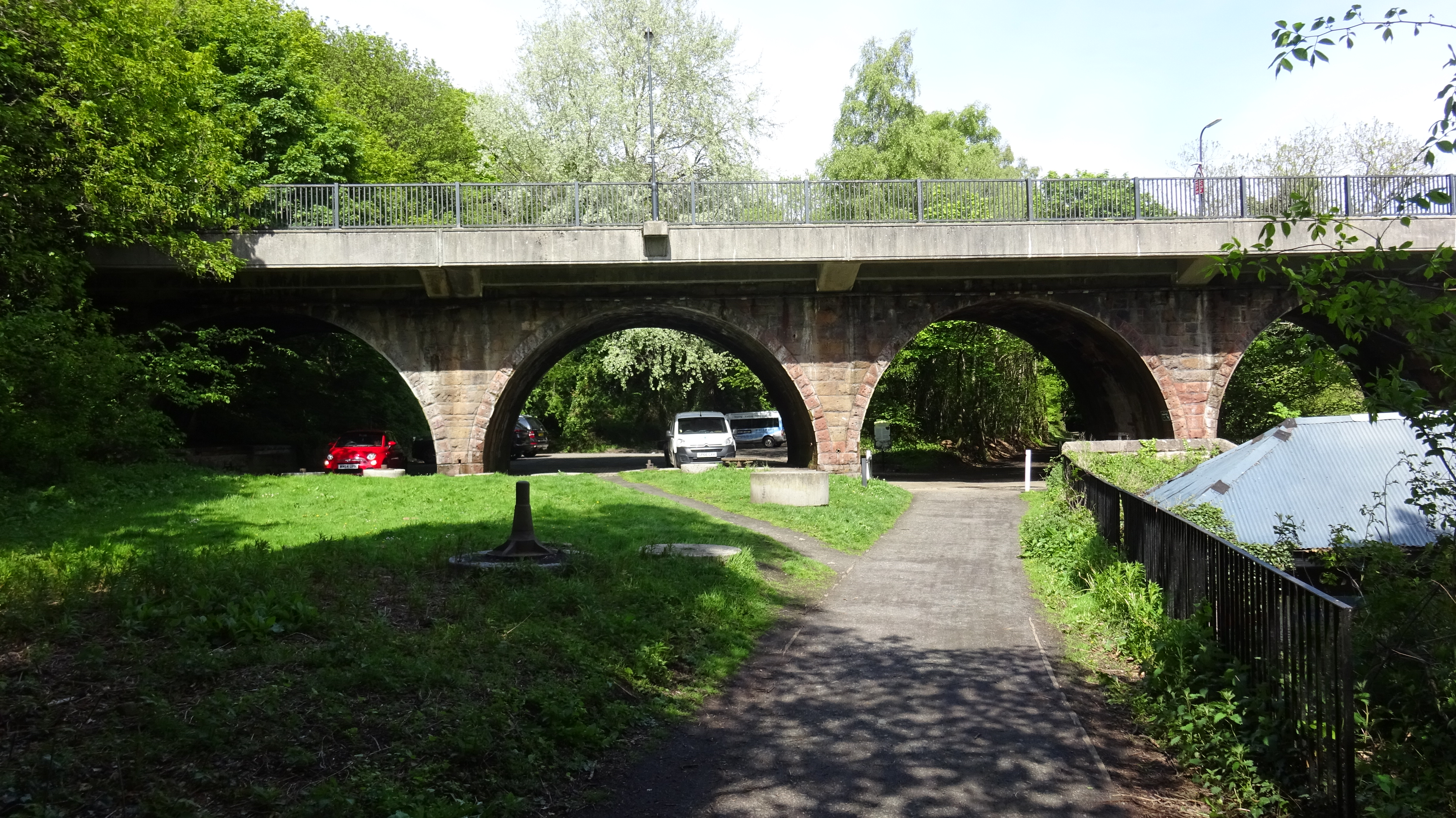 Colinton station trackbed and overbridge, Balerno Loop, Edinburgh, Scotland. Station yard access to the left. Now Water of Leith Walkway. View looking east. Note old crane base to the left